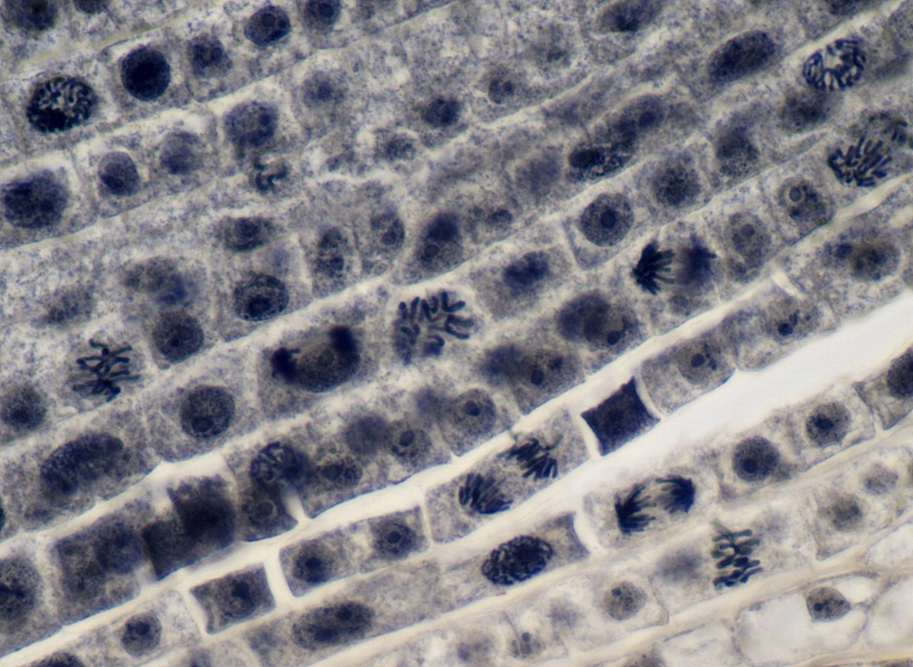 Meristem in the apex of onion root